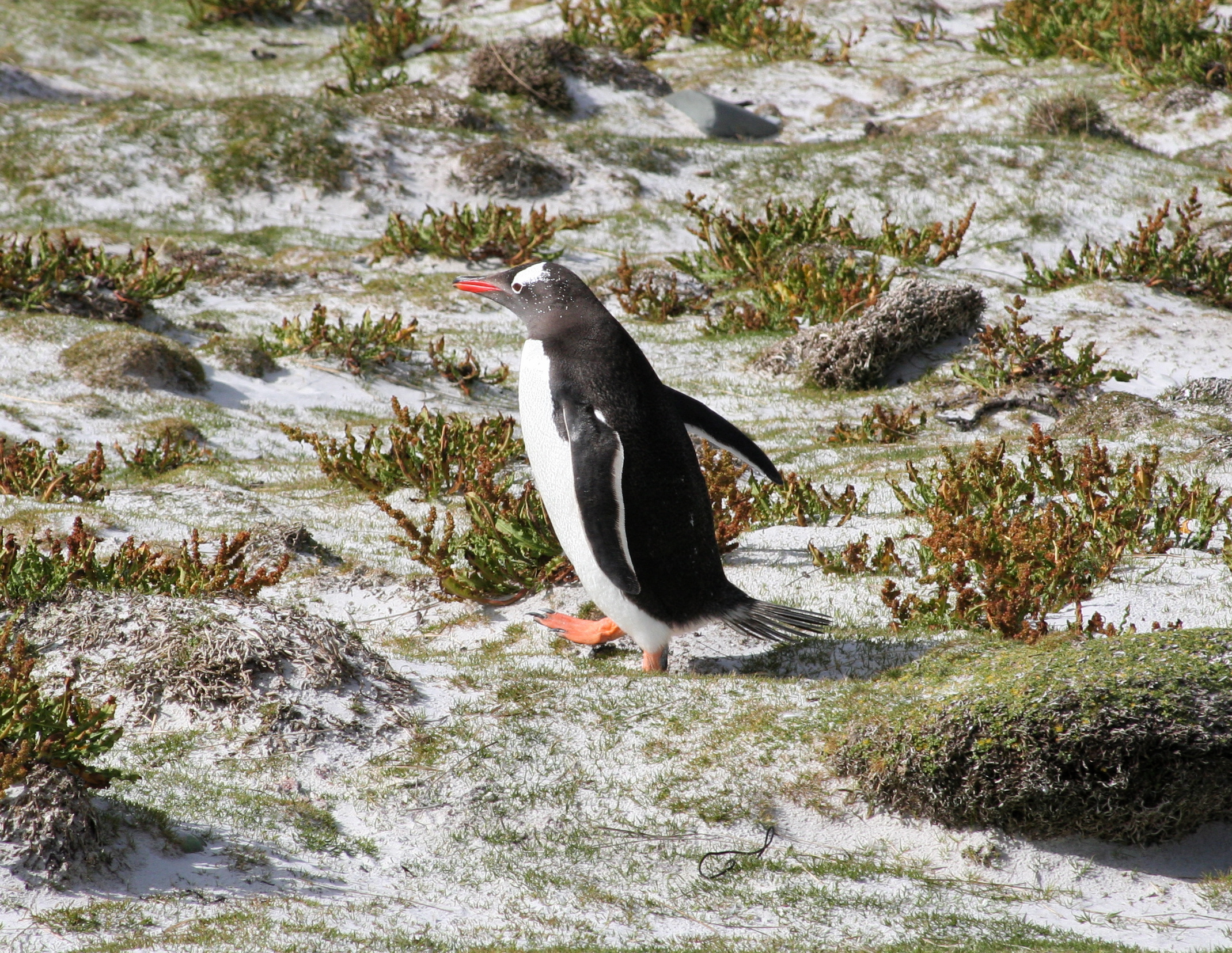 Gentoo Penguin on Berthas Beech, Nr Mount Pleasant Complex, East Falkland. It is walking up from the beach to the colony on the hill.